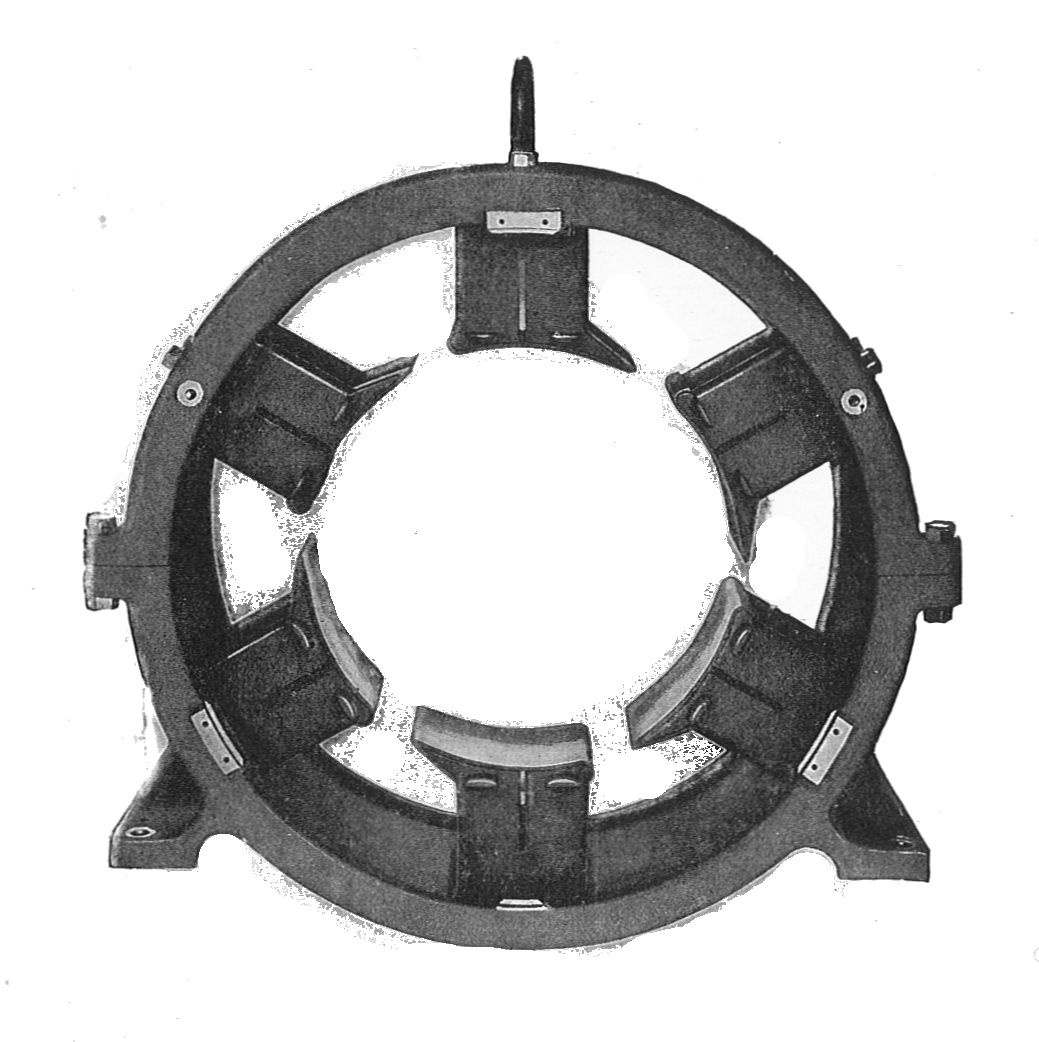 Field magnet of Lundell generator (Rankin Kennedy, Electrical Installations, Vol II, 1909).jpg